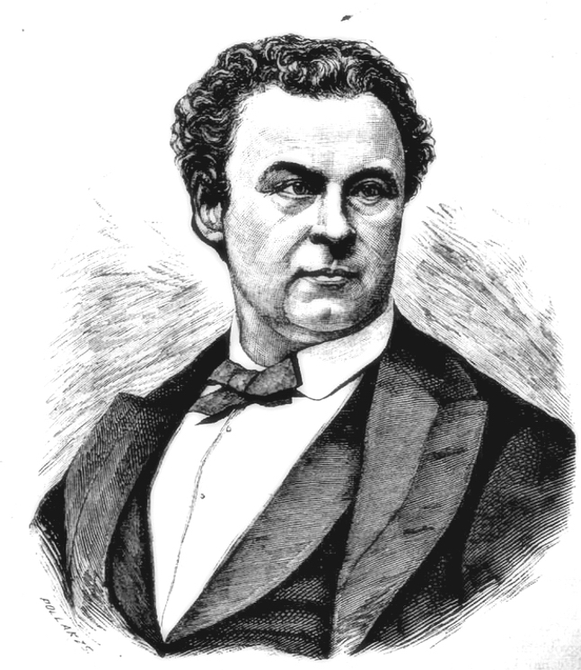 Portrait of Vilmos Győry